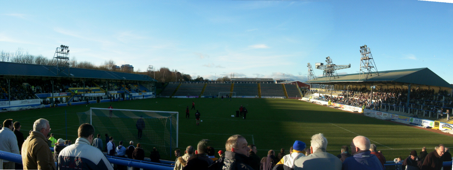 Cappielow Park, Greenock